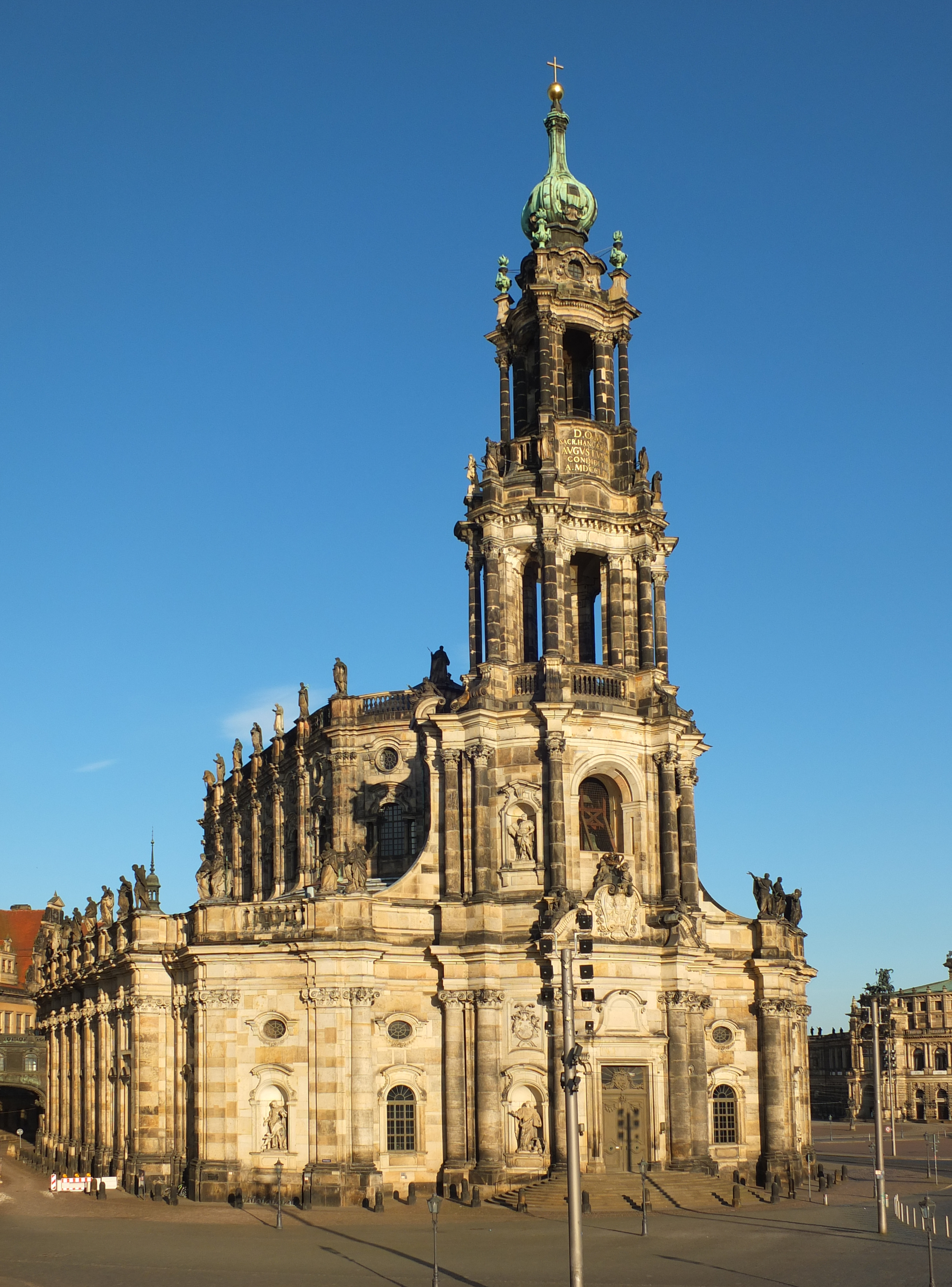 Dresden Cathedral or the Cathedral of the Holy Trinity, Dresden, in German Katholische Hofkirche